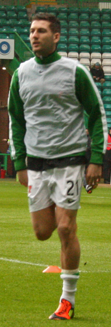 Charlie Mulgrew, player of Celtic Glasgow